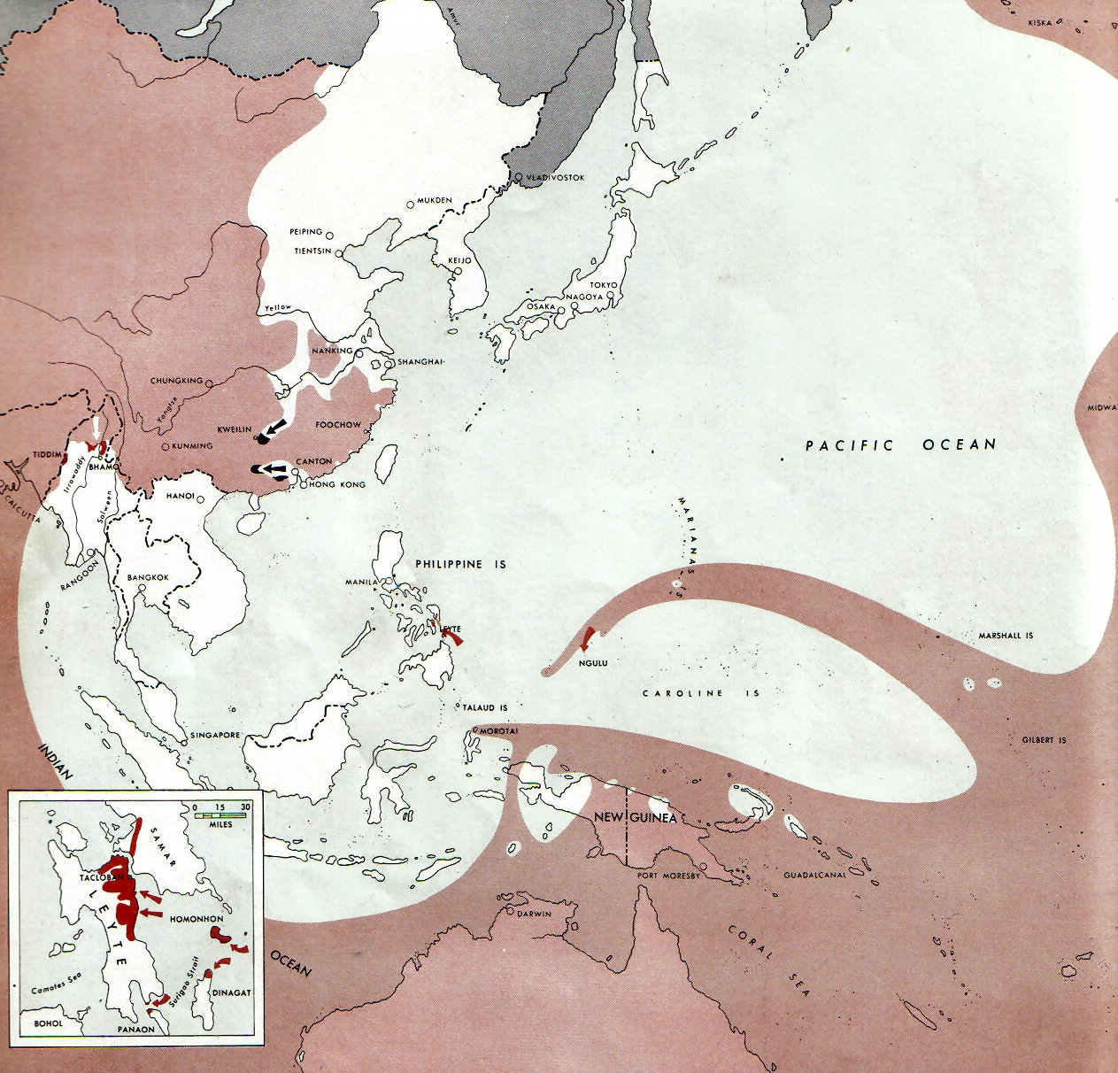 Map of the front against Japan as of 1 Nov 1944: This map is taken from the source "Atlas of the World Battle Fronts in Semimonthly Phases to August 15th 1945: Supplement to The Biennial report of The Chief of Staff of the United States Army July 1, 1943 to June 30 1945 To the Secretary of War". (See Cover, Forward and Map details)